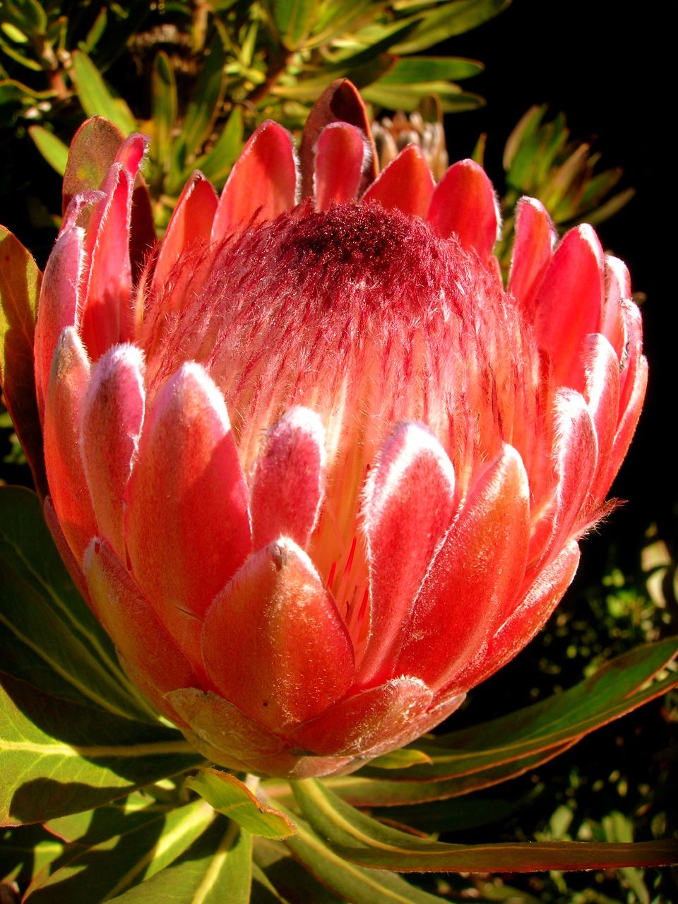 these are from south africa, taken at the UC Santa Cruz Arboretum